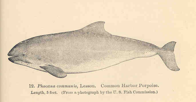 Phoaena communis, Lesson. Common Harbor Porpoise . Length, 5 feet (From a photograph by the U. S. Fish Commission Subject: Harbor porpoise Tag: Aquatic Mammals